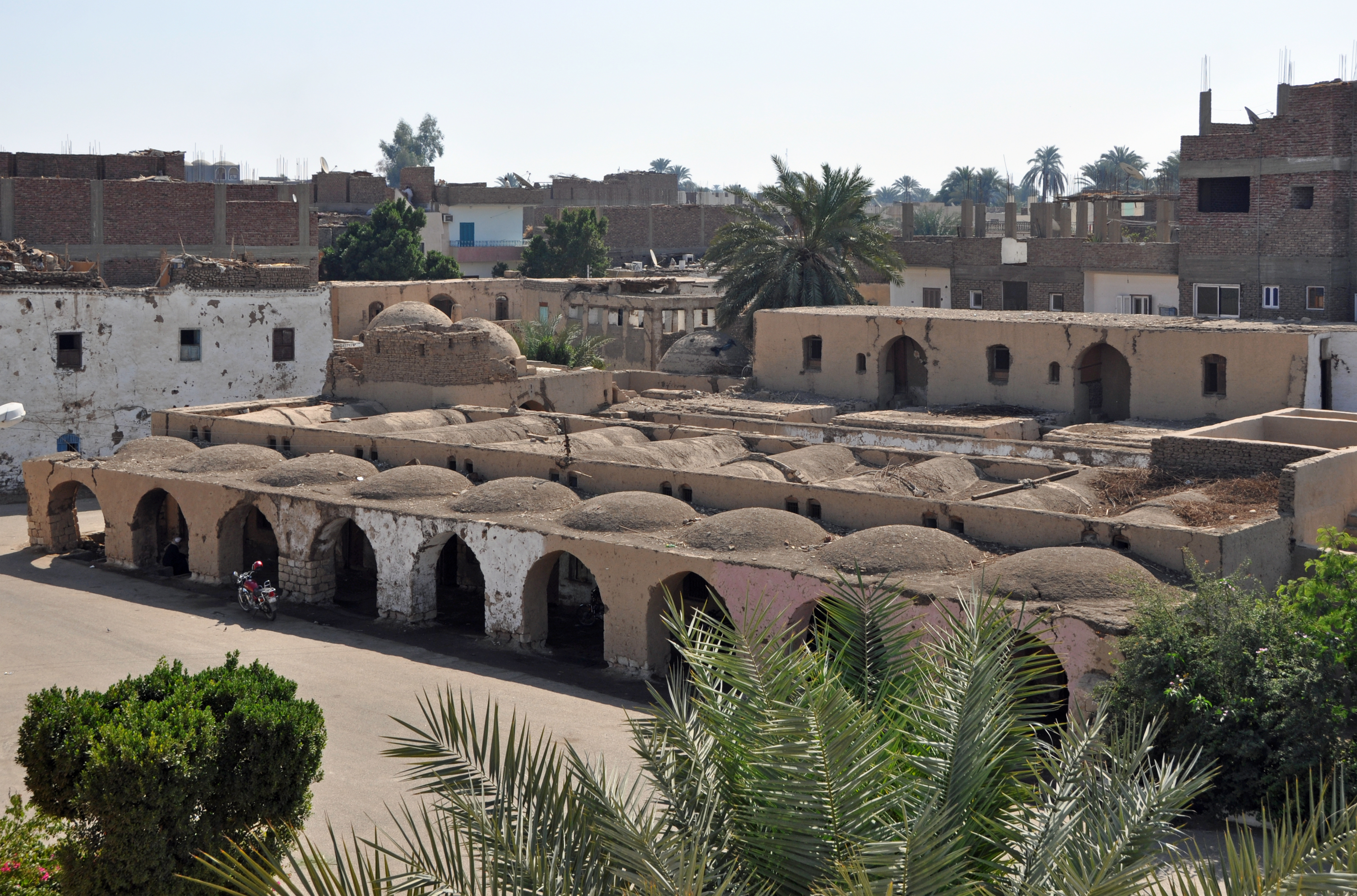 Luxor (Egypt): New Gourna